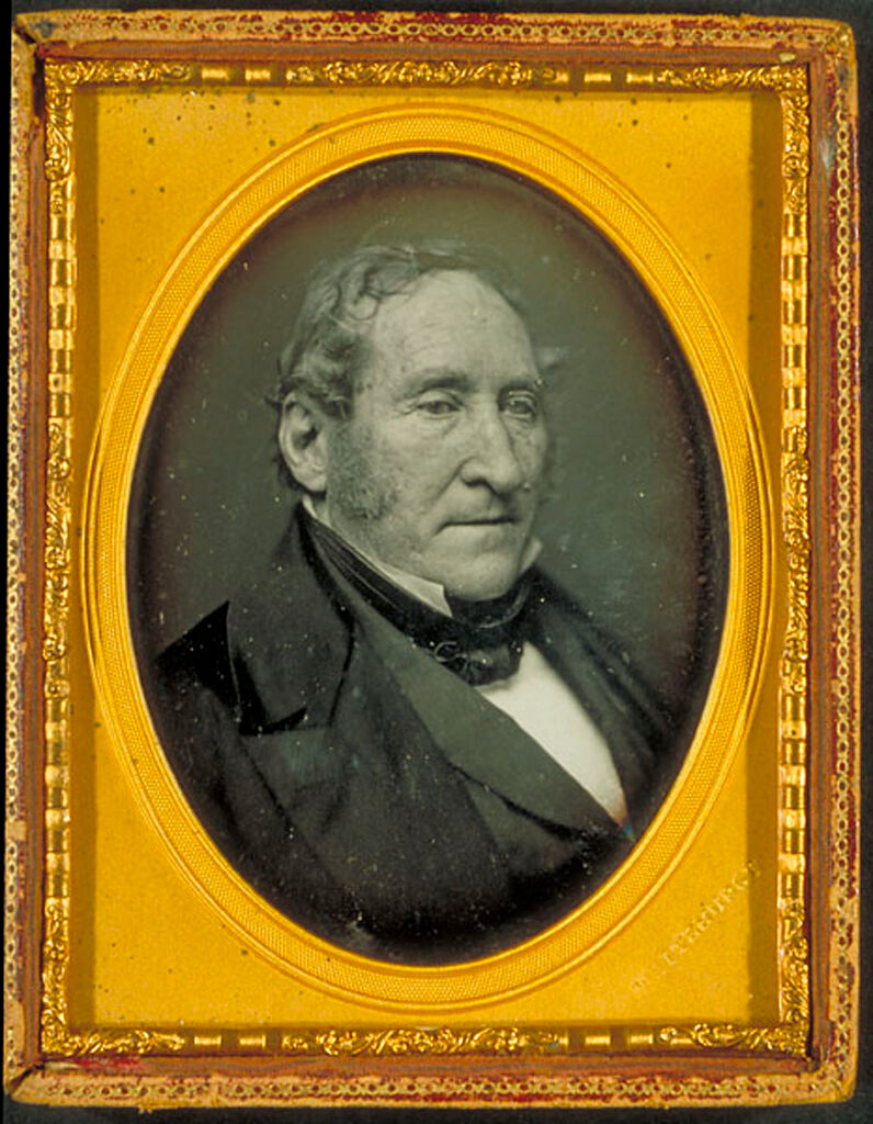 Daguerreotype of United States Senator from Missouri Thomas Hart Benton. Image courtesy of the Harvard University Library.